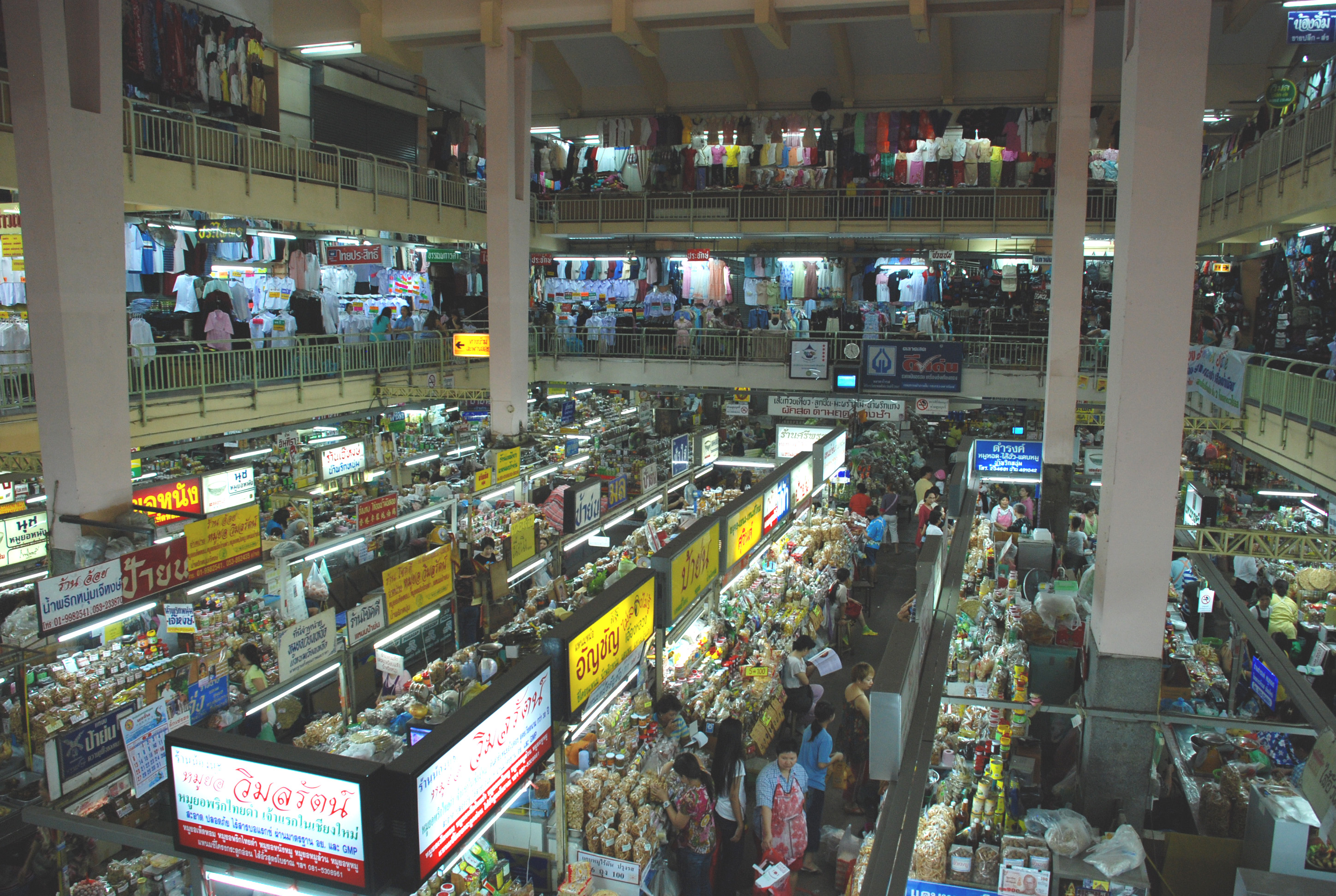 Waroros Market in Kad Luang, Chiang Mai City, Chiang Mai Province, Thailand ตลาดวโรรส กาดหลวง อำเภอเมือง จังหวัดเชียงใหม่